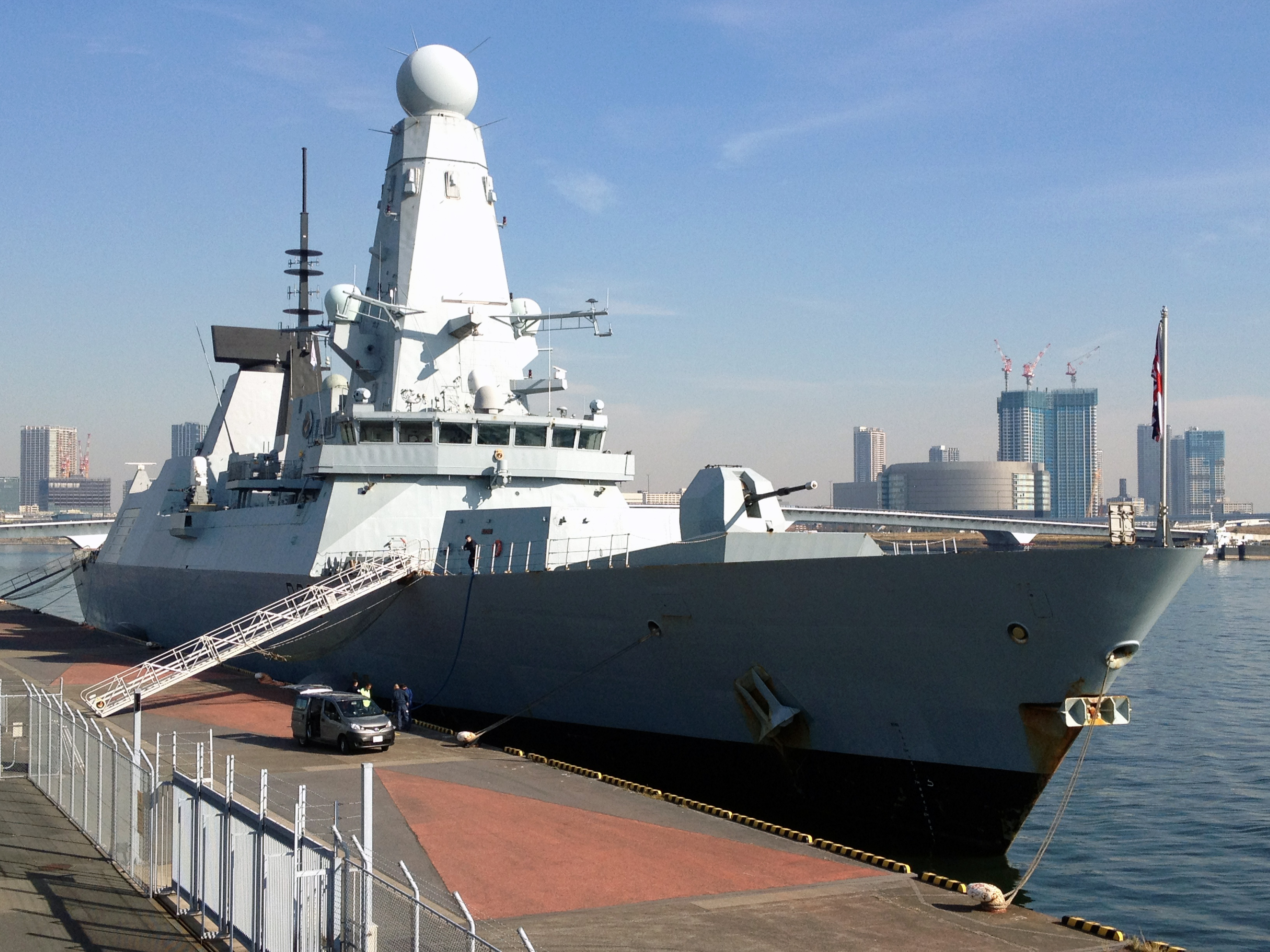 HMS Daring (D32) docked in Tokyo Port, Japan.